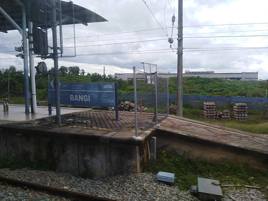 Taken on the way to Mid Valley.